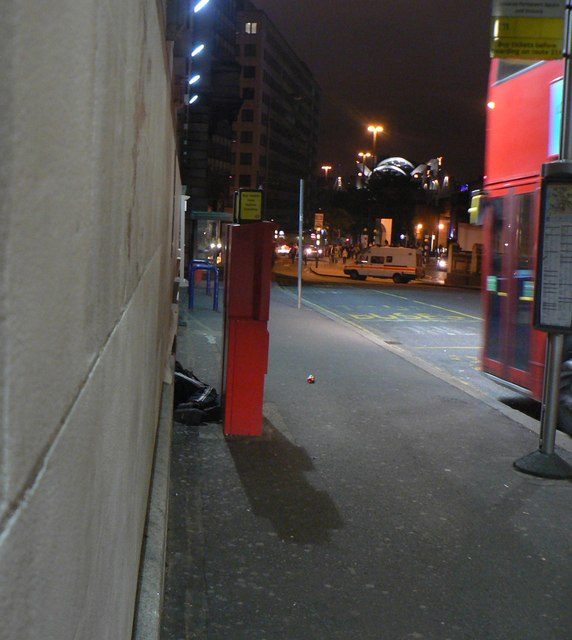 Waterloo: sleeping rough A homeless man finds shelter behind two ticket machines outside Waterloo station.